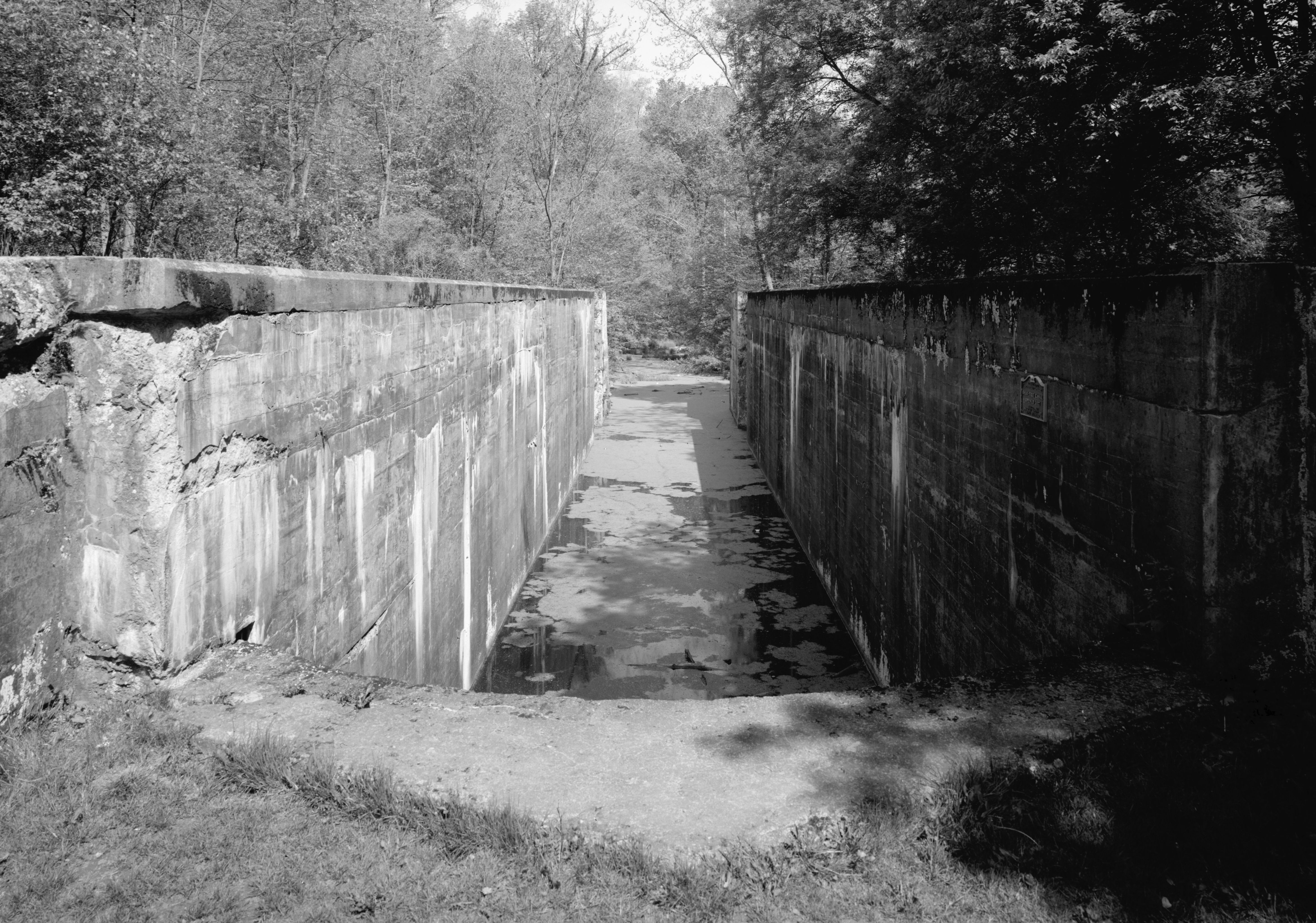 Lock 28 of the Ohio & Erie Canal, Vicinity of Peninsula, Ohio. Lock chamber, looking north. Original construction dated to 1827. With a depth of 16 feet, Lock #28 was the deepest lock in that portion of the Ohio and Erie Canal between Akron and Cleveland, hence its popular name, "Deep Lock".